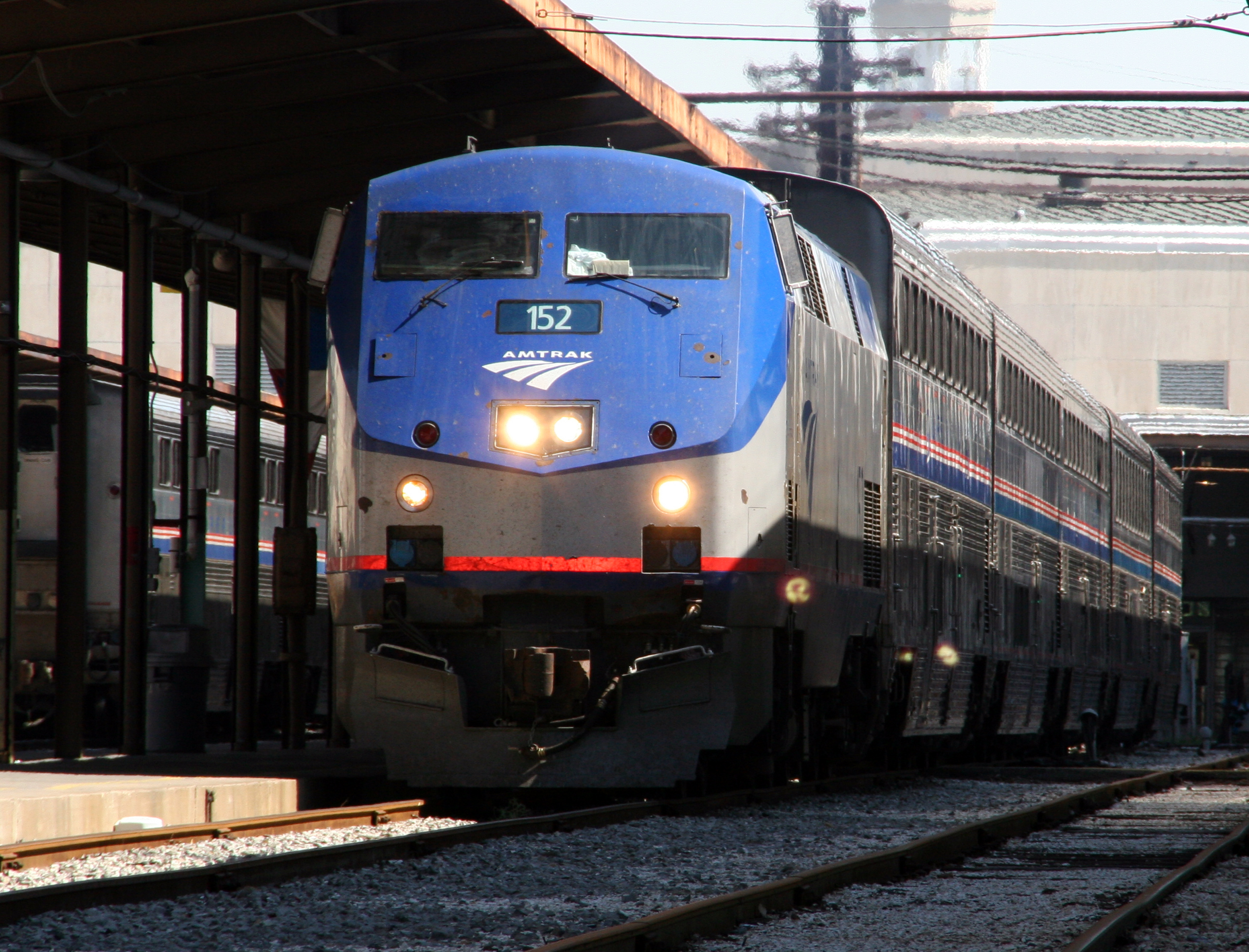 New Orleans, LA, October 9, 2005 - Amtrak began service out of New Orleans today, October 9, for the first time since Hurricane Katrina destroyed the rail lines. Amtrak is proud to restore operations to and from Union Passenger Terminal to both serve passengers and to help the city rebuild. Robert Kaufmann/FEMA